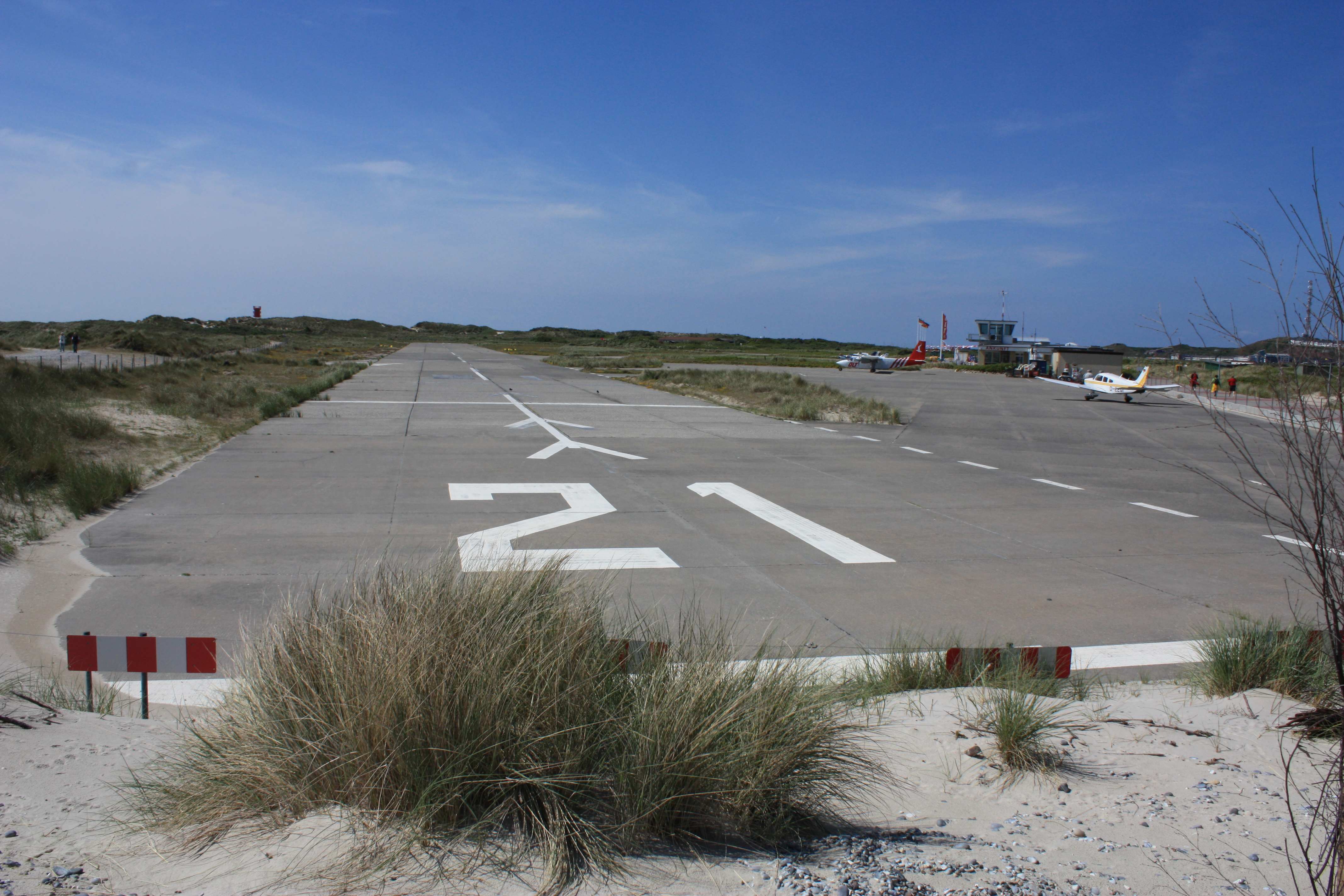 Heligoland Airport